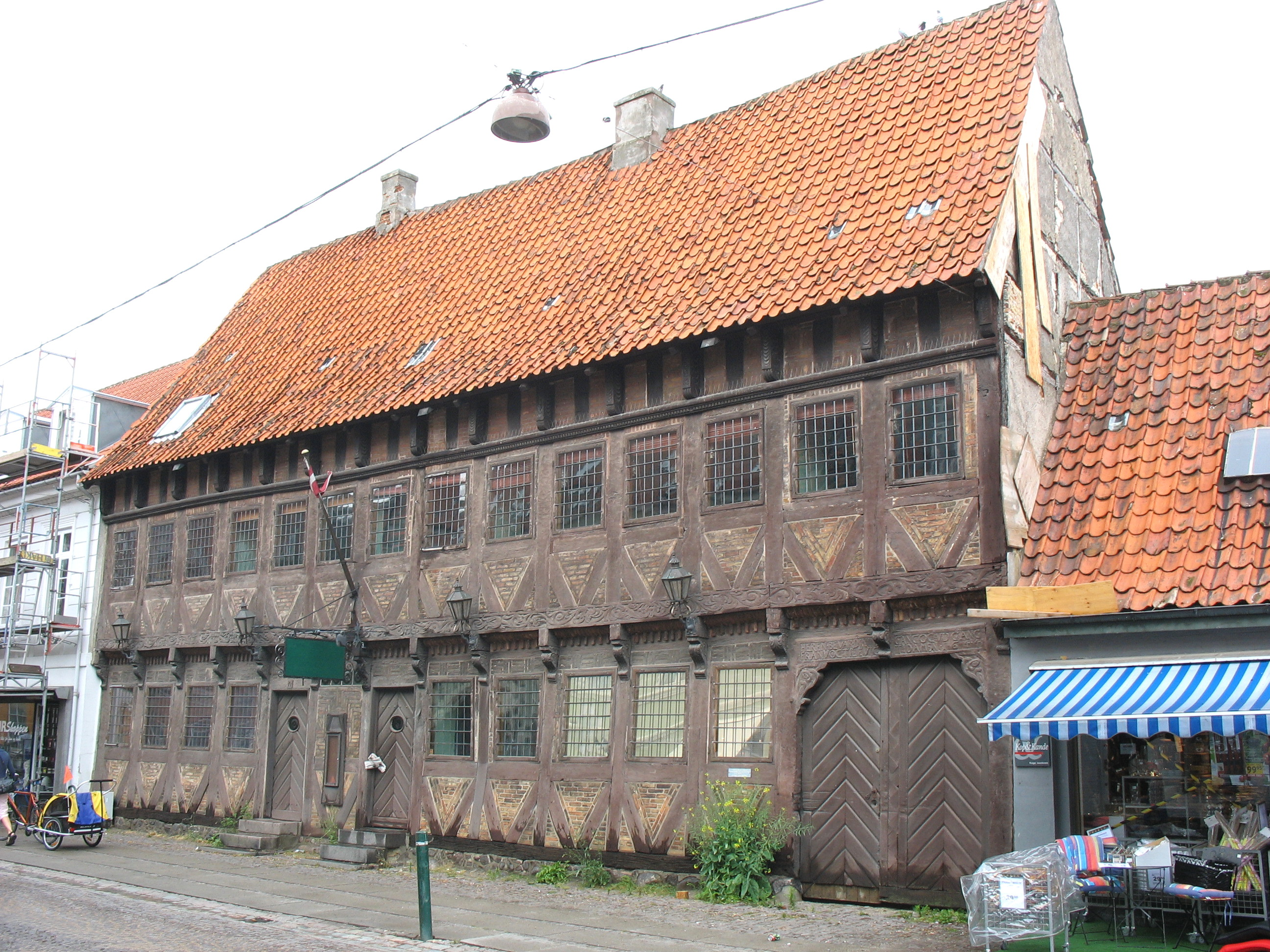 The old half-timbered house "Richters Gæstgivergaard" in the street "Vestergade". It is located in the town "Køge", Middle Zealand - east Denmark.